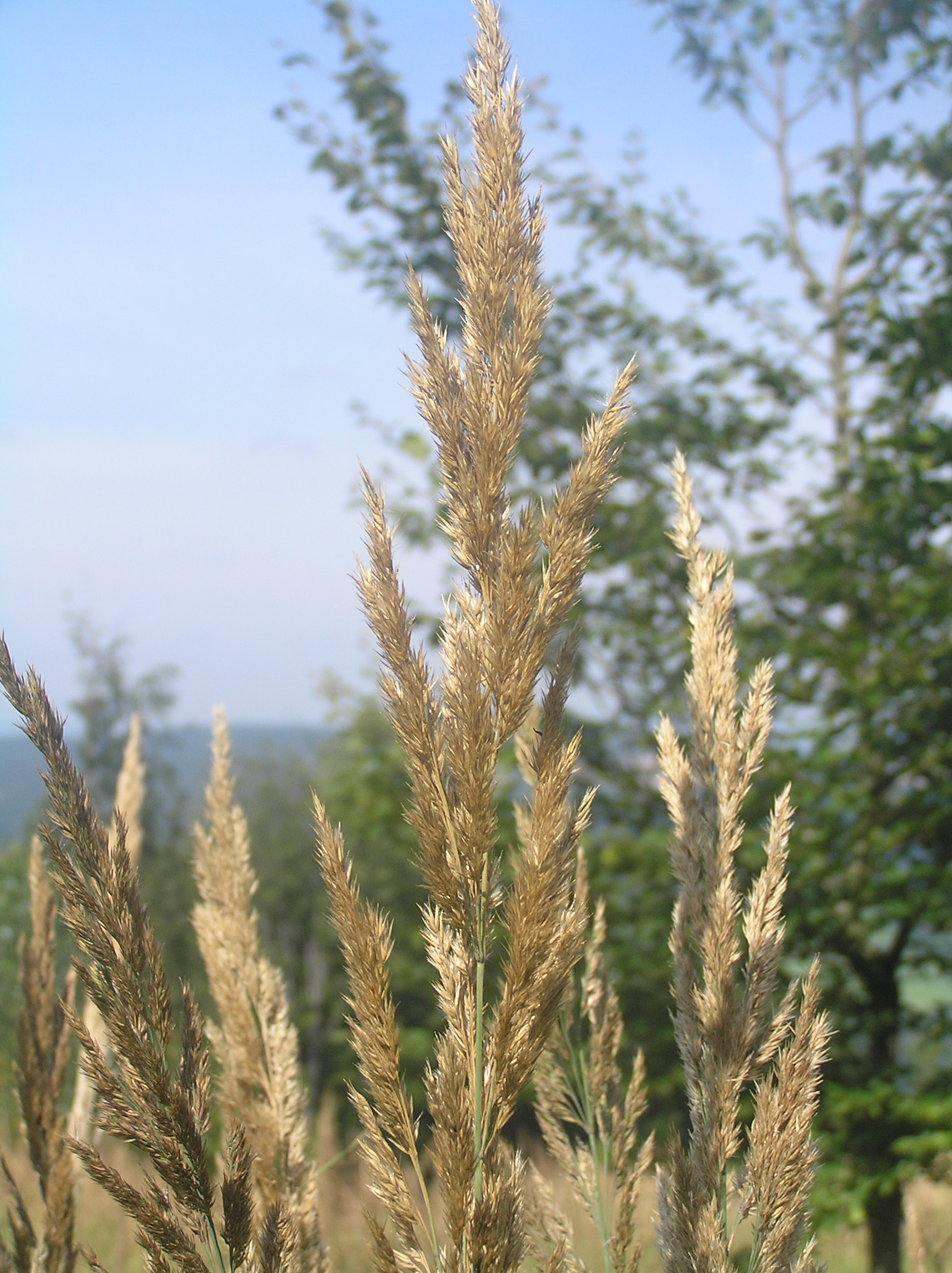 Calamagrostis epigejos, Polom near Potštejn, Czech Republic